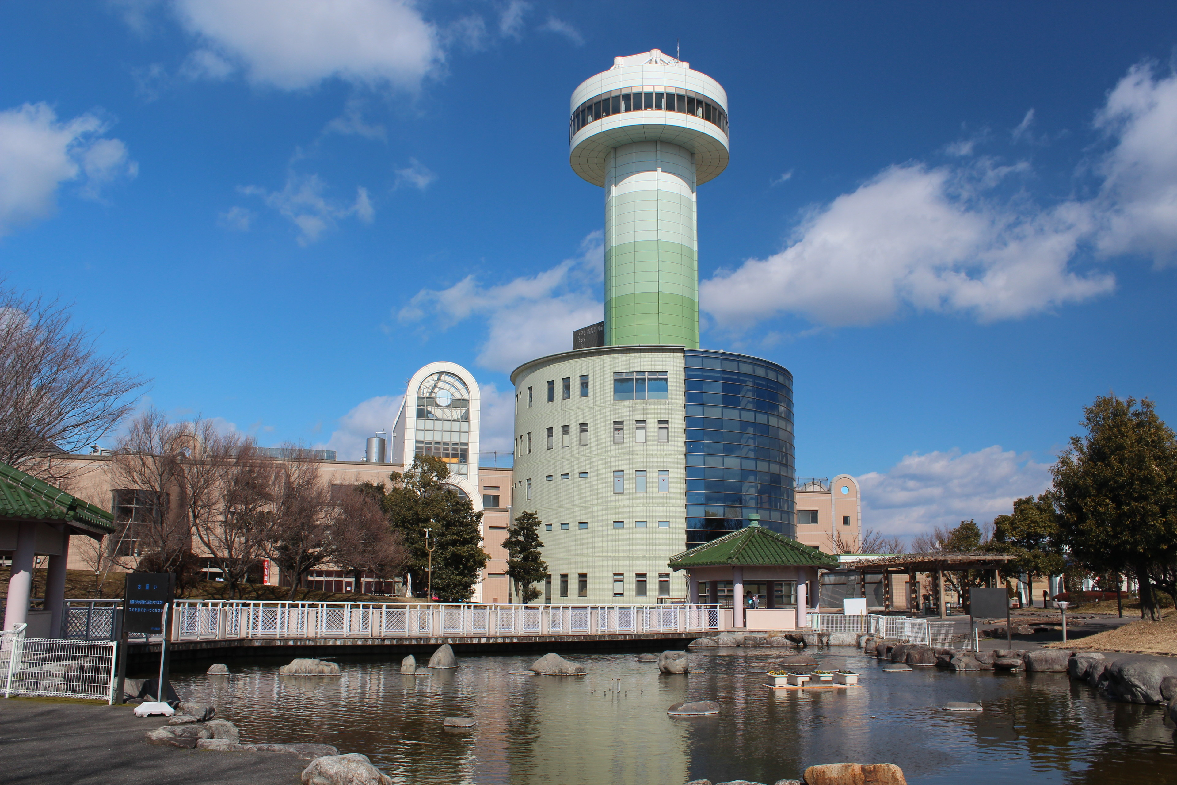 Suitopia Konan, in Konan, Aichi prefecture, Japan.